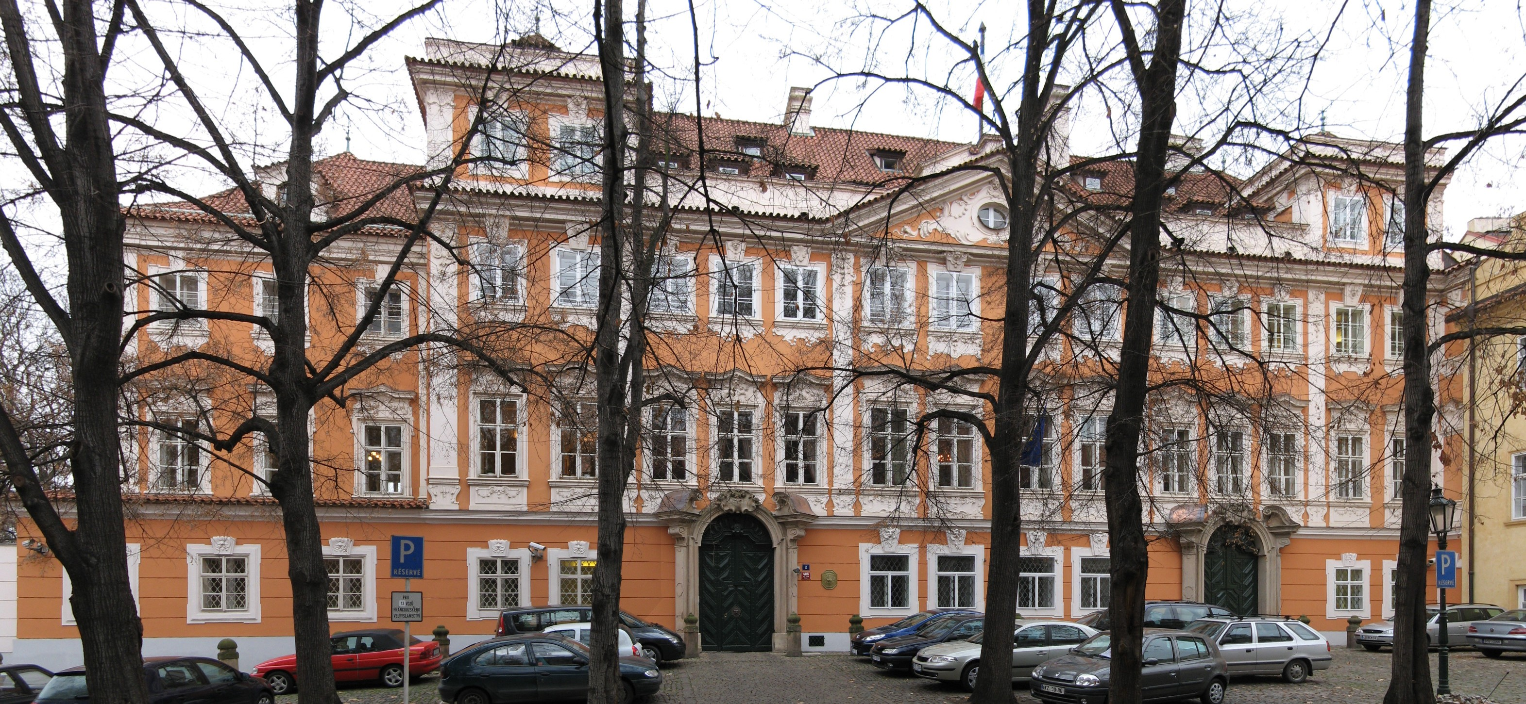 Buquoy Palace in Prague, Lesser Town, French Embassy. Composed from 5 pictures.